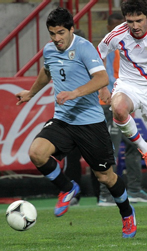 Luis Suárez